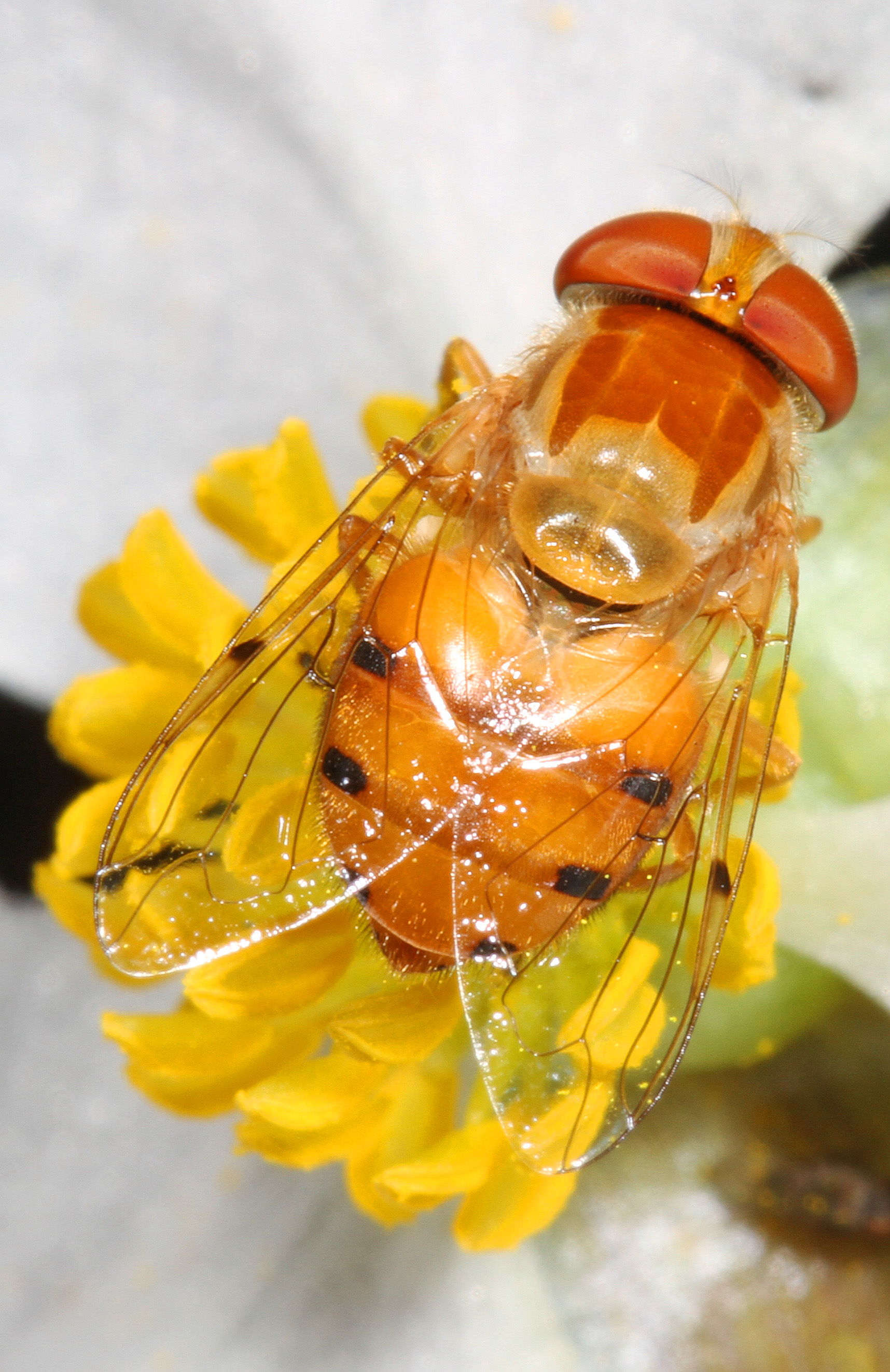 Syrphid - Copestylum sexmaculatum, Okaloacoochee Slough State Forest, Felda, Florida. This is fairly uncommon, and was my favorite shot from the trip to Florida.